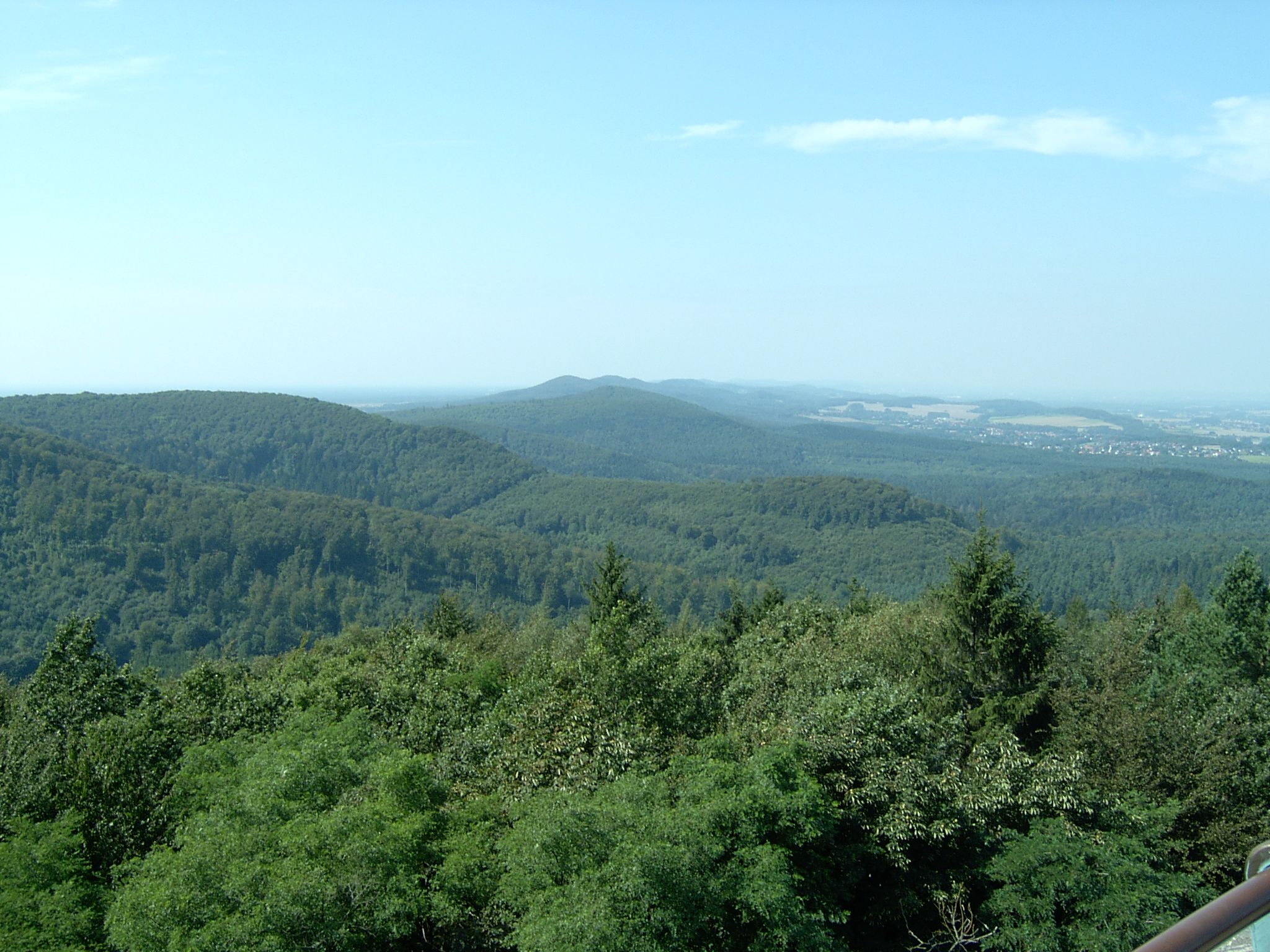 View over the Teutoburg Forest